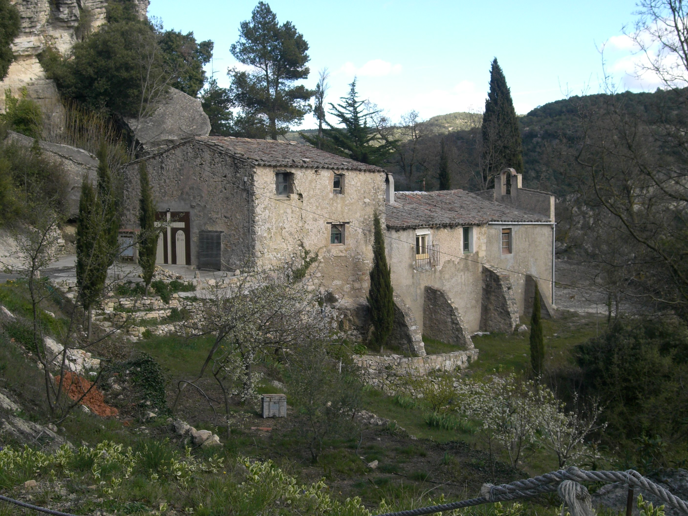 Hermitage of Sant Pau, Arbolí